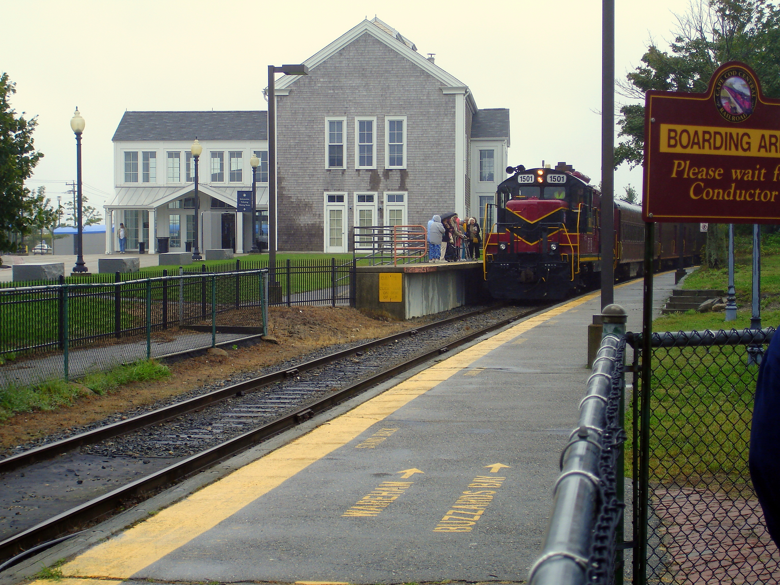 A Cape Cod Central Railroad train with the Hyannis Transportation Center in the background. The train is picking up a few senior citizens who are unable to board the steps on the platform of the Hyannis Train Station which is in the foreground.